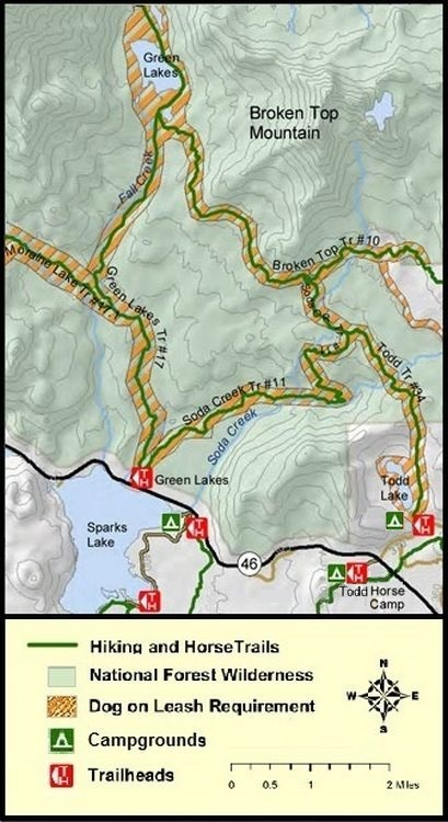 Map of Forest Service trails into the Three Sisters Wilderness Area from trailheads at Todd Lake and Sparks Lake along the Cascade Lakes Scenic Byway in central Oregon